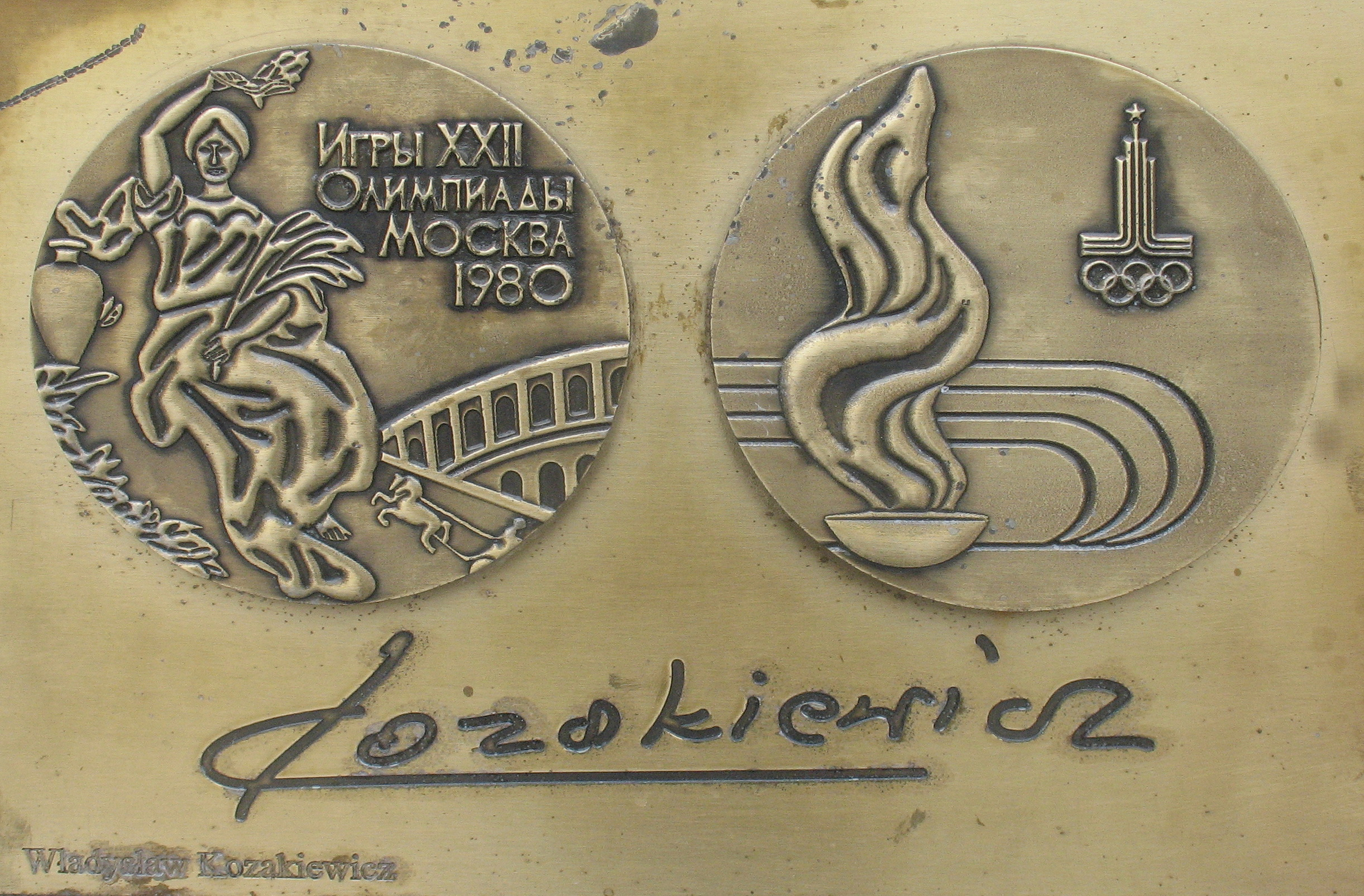 Władysław Kozakiewicz medal & autograph in Avenue of Sport Stars Dziwnów.